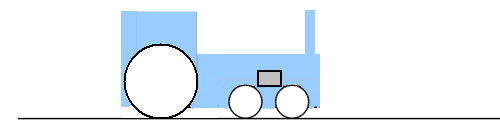 Scheme of Crampton locomotive